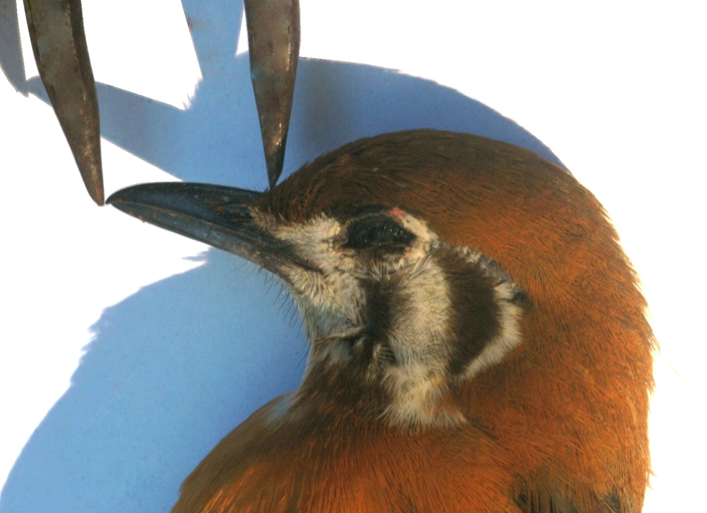 Measuring the beak of a dead Orange-headed Thrush (Zoothera citrina cyanotus)